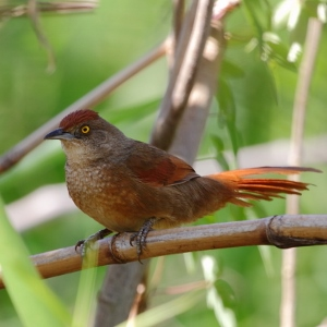 Greater Thornbird at Boa Esperança do Sul - SP - Brazil